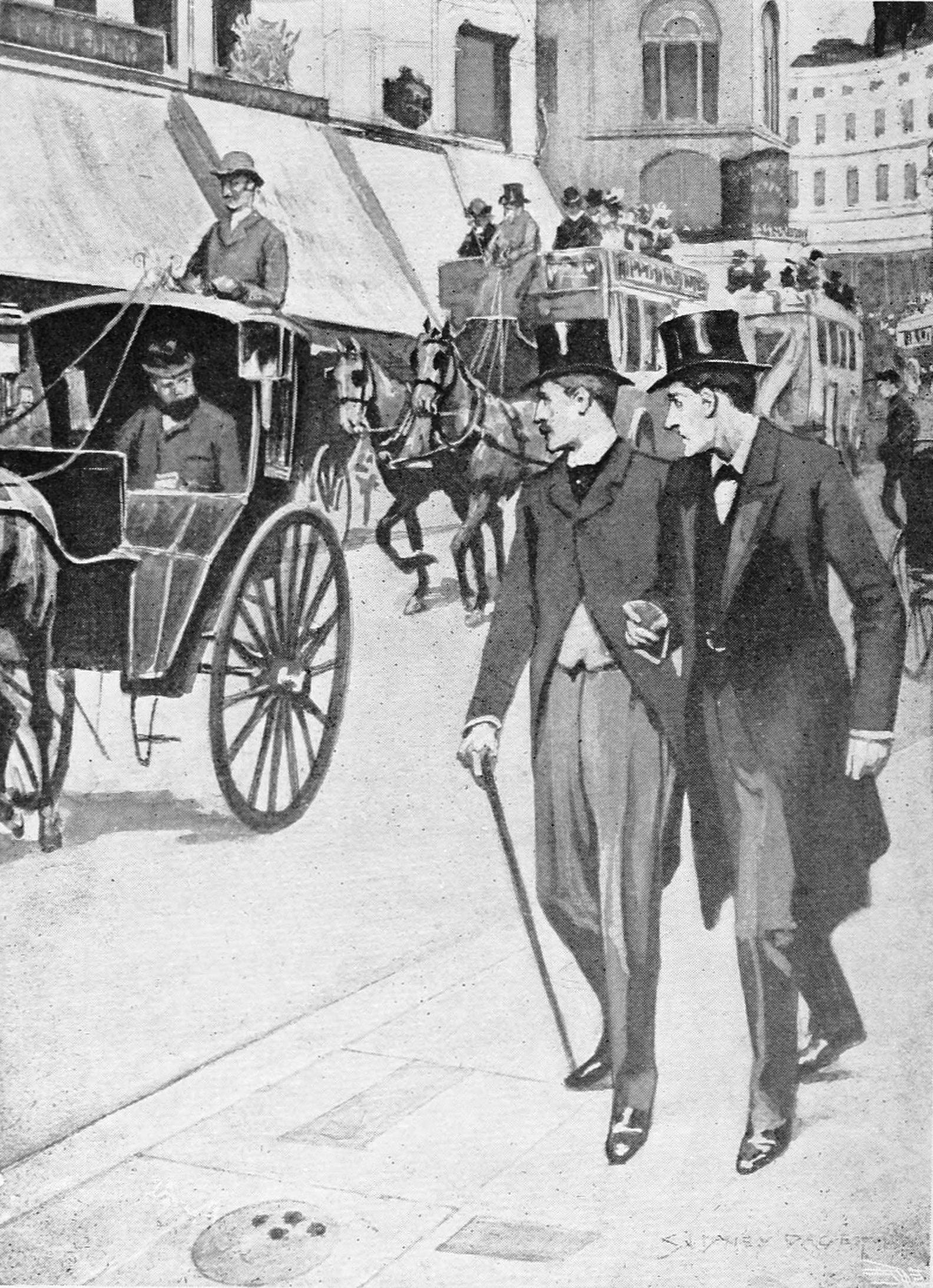 An page scan of a book The Hound of the Baskervilles by Arthur Conan Doyle. Illustration appeared in The Strand Magazine in September, 1901. Original caption was "THERE'S OUR MAN, WATSON! COME ALONG."image cropped, captions removed, converted to b&w